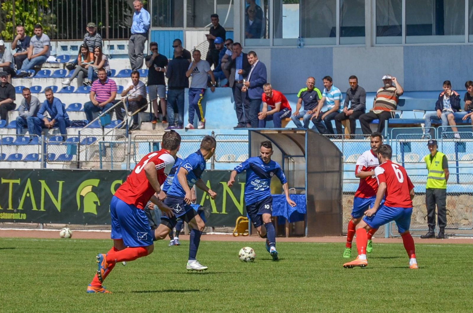 Rapid Suceava - Gloria Buzău